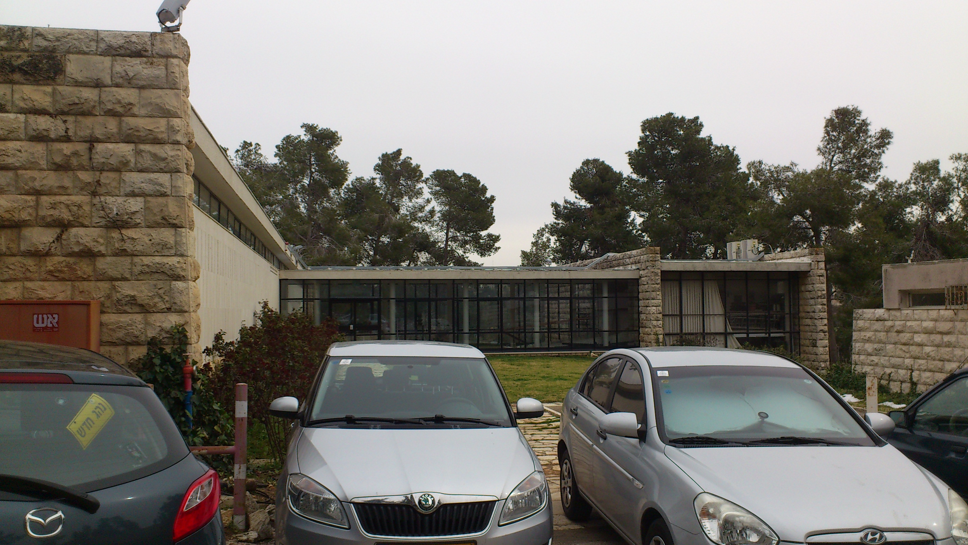 Academy of the Hebrew Language